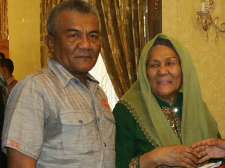 Rohani Darus Danil with Tengku Erry Nuradi